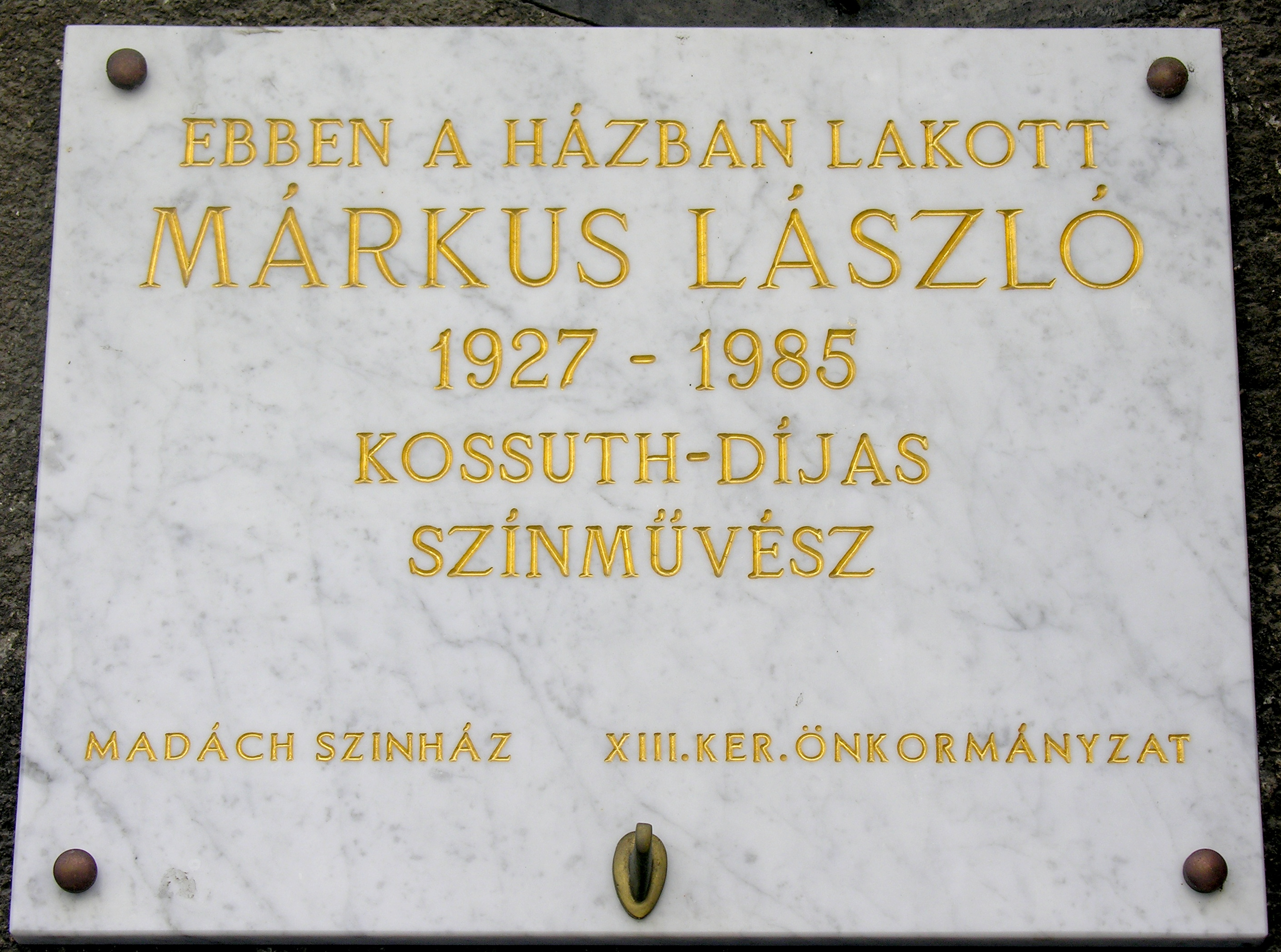 Commemorative plaque of the actor László Márkus in Budapest District XIII, Csanády Street No 12/a